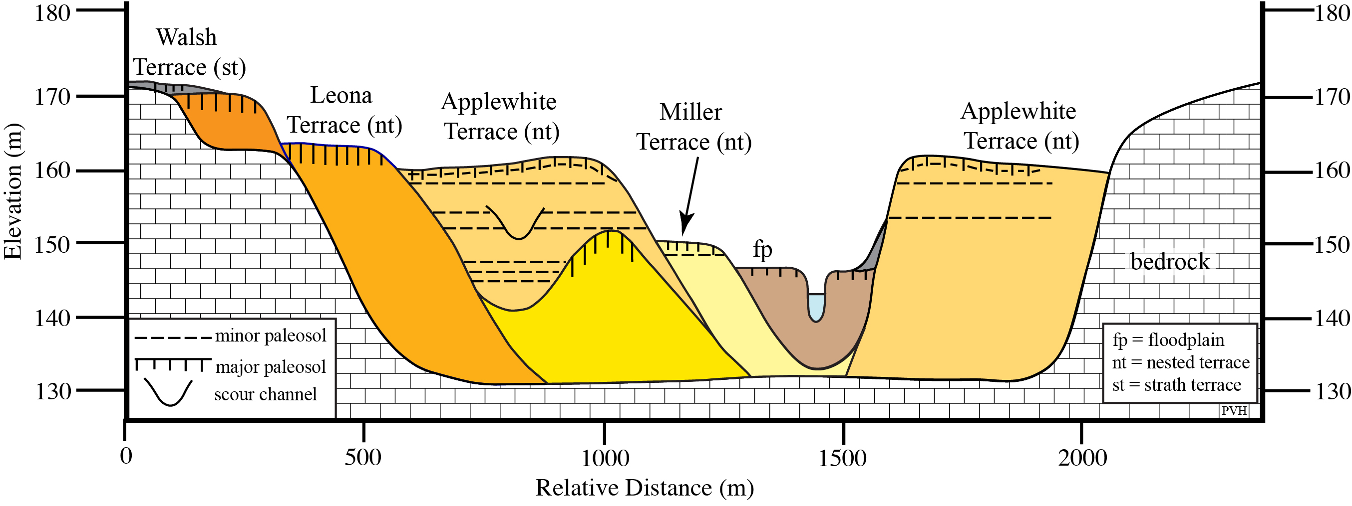 Cross-section of the Medina River at the Richard Beene Site (4IBX831), Bexar County, Texas, that illustrates the internal structure of nested terraces within a river valley. Figure created using data from: Thoms, A.V. and R.D. Mandel, eds., 2007. Archaeological and Paleoecological Investigations at the Richard Beene Site, South-Central Texas. Reports of Investigation No. 8, Center for Ecological Archaeology, Texas A&M University, College Station.